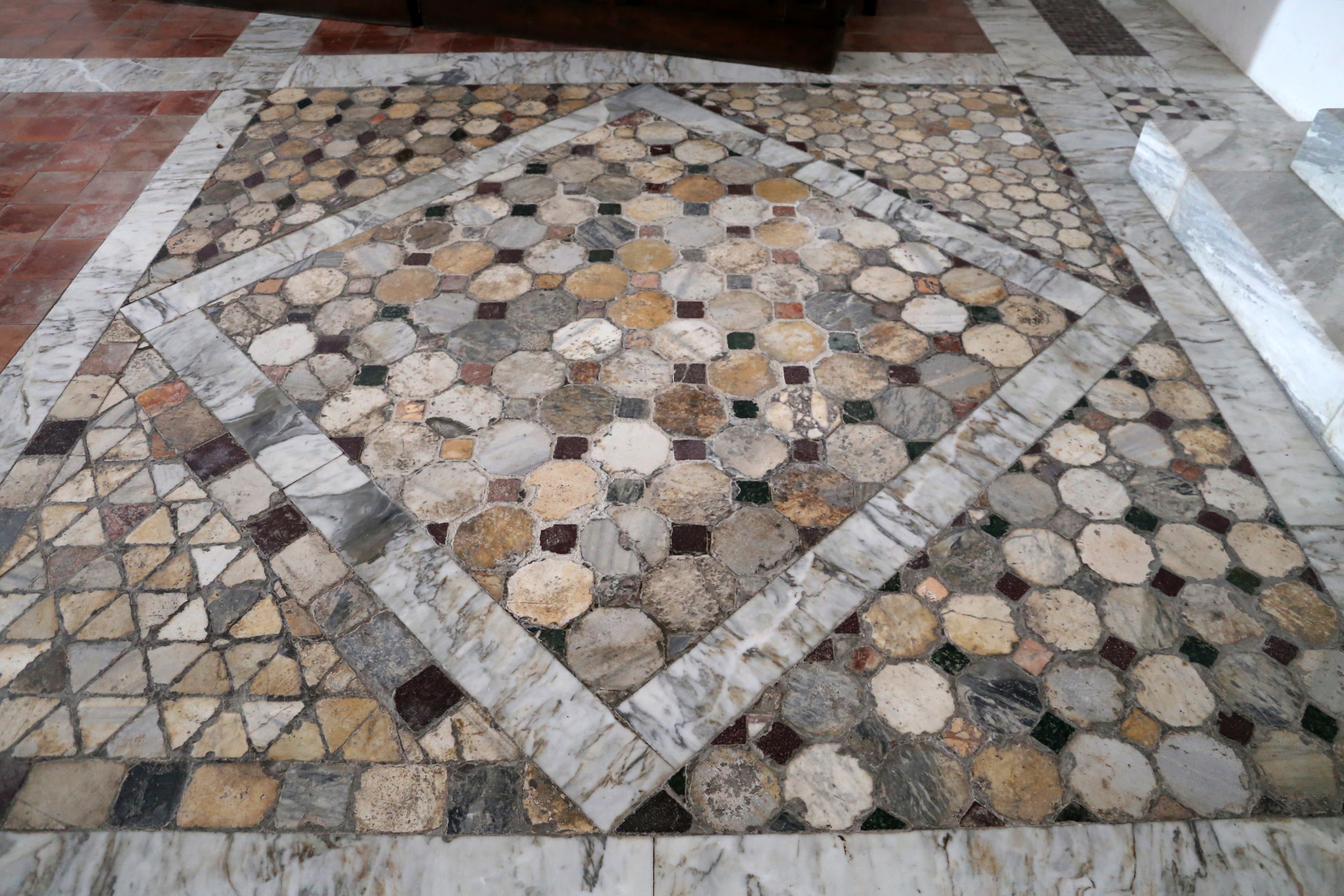 San Vincenzo al Volturno